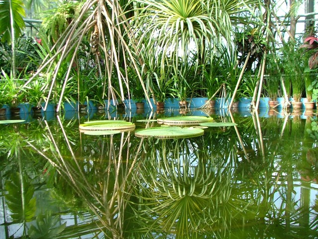 Botanical Garden in Cluj-Napoca. The Glass house.